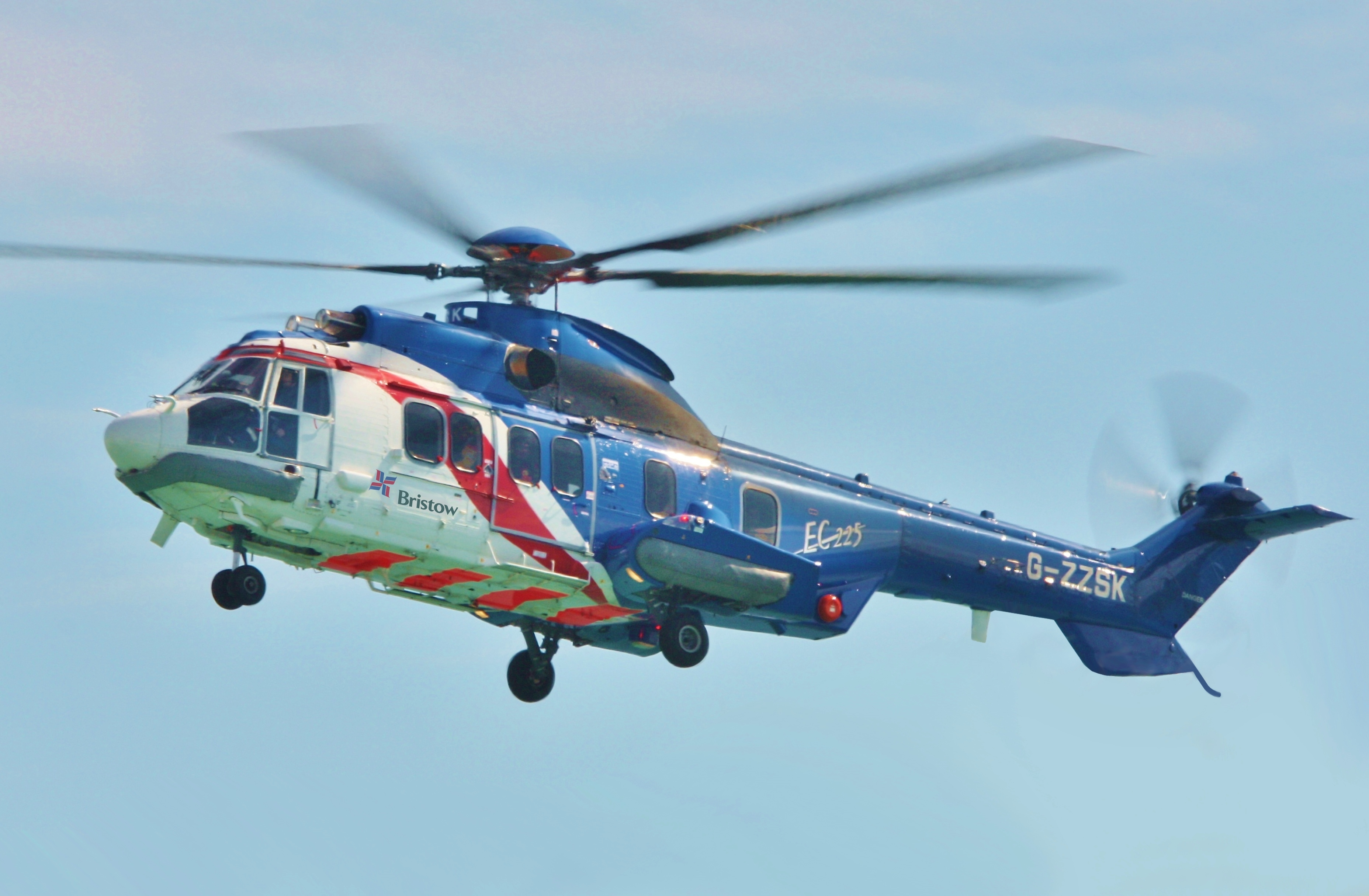 altered image from this file